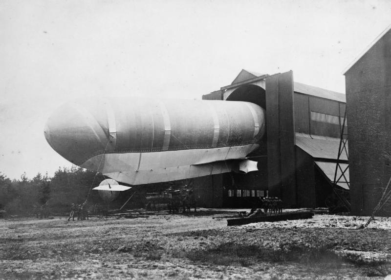 British airship Nulli Secundus II almost emerged from the airship shed.